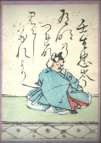 A portrait of Mibu no Tadamine; illustration from an uta-garuta playing card for Hyakunin Isshu, created in the Edo period.